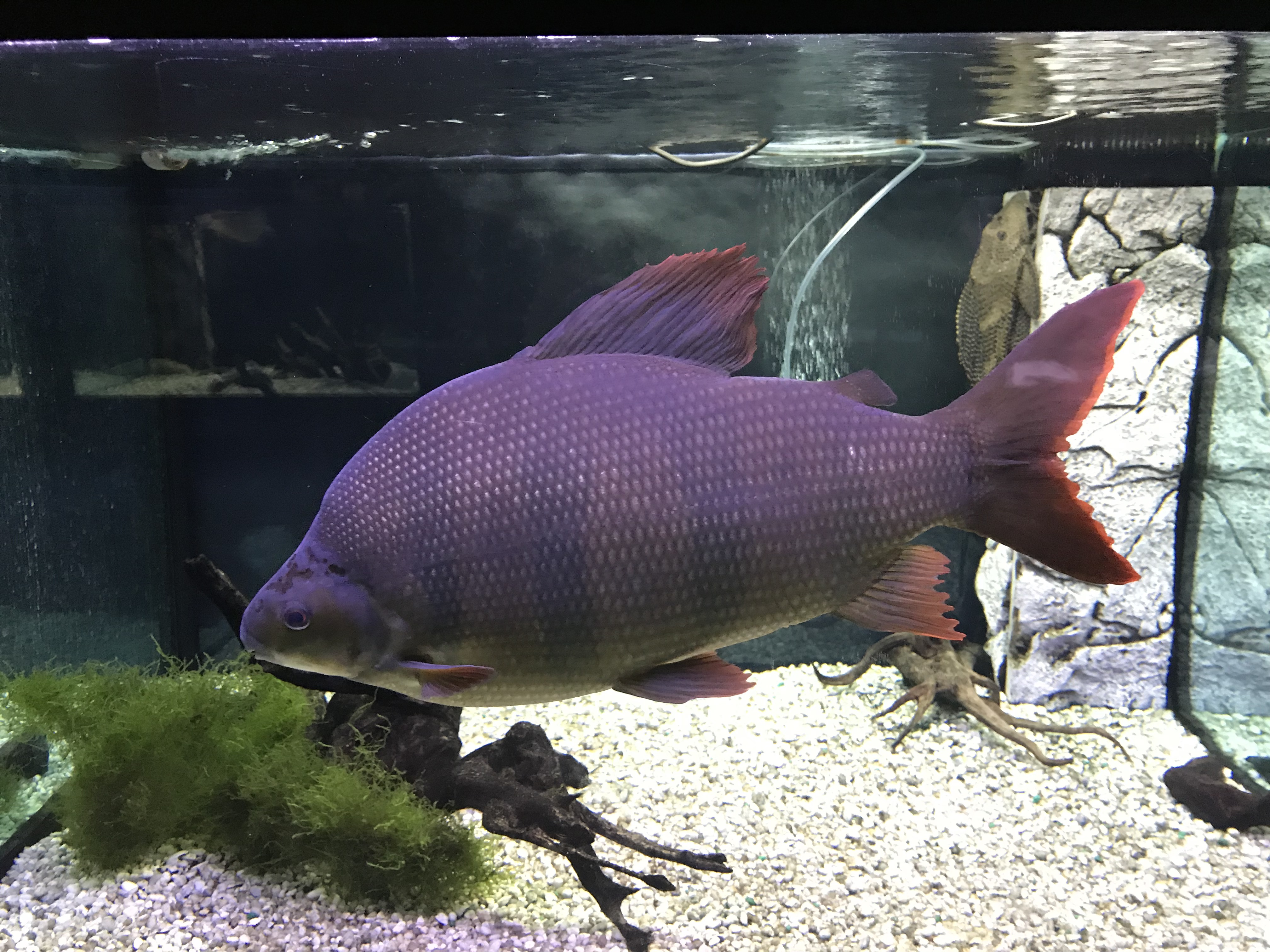 Distichodus sexfasciatus at Calci Aquarium (Natural History Museum of Pisa University.